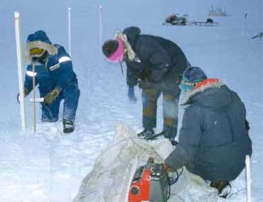 Making direct measurements of the sea ice mass balance is simple. An array of stakes and thickness gauges is used to measure ablation and accumulation of ice and snow at the top and bottom of the ice cover (see right). In spite of the importance of mass balance measurements and the relatively simple equipment involved in making them, there are few observational results. This is due, in large part, to the expense involved in operating a long-term field camp to serve as the base for these studies.